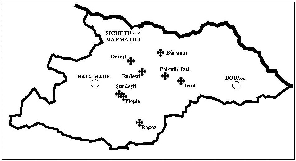 Wooden Churches of Maramures (UNESCO)